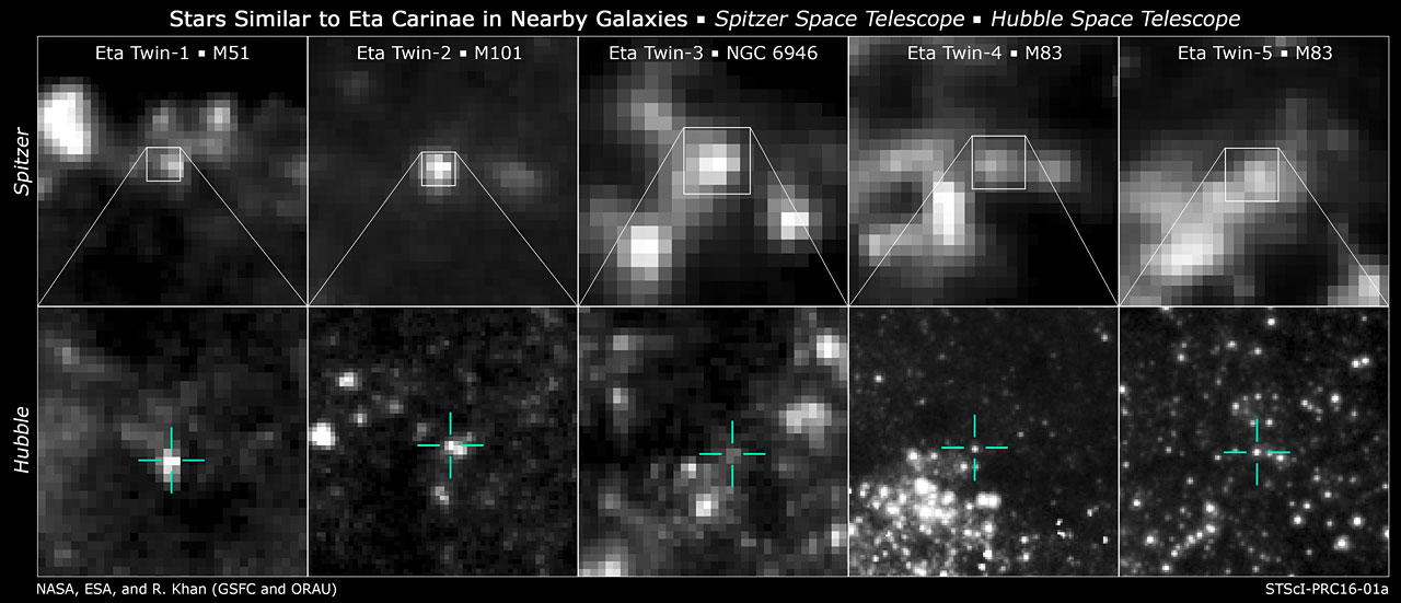 Researchers found likely Eta twins in four galaxies by comparing the infrared and optical brightness of each candidate source. Infrared images from NASA's Spitzer Space Telescope revealed the presence of warm dust surrounding the stars. Comparing this information with the brightness of each source at optical and near-infrared wavelengths as measured by instruments on the NASA/ESA Hubble Space Telescope, the team was able to identify candidate Eta Carinae-like objects. Top: 3.6-micron images of candidate Eta twins from Spitzer's IRAC instrument. Bottom: 800-nanometer images of the same sources from various Hubble instruments. Link: NASA Press release